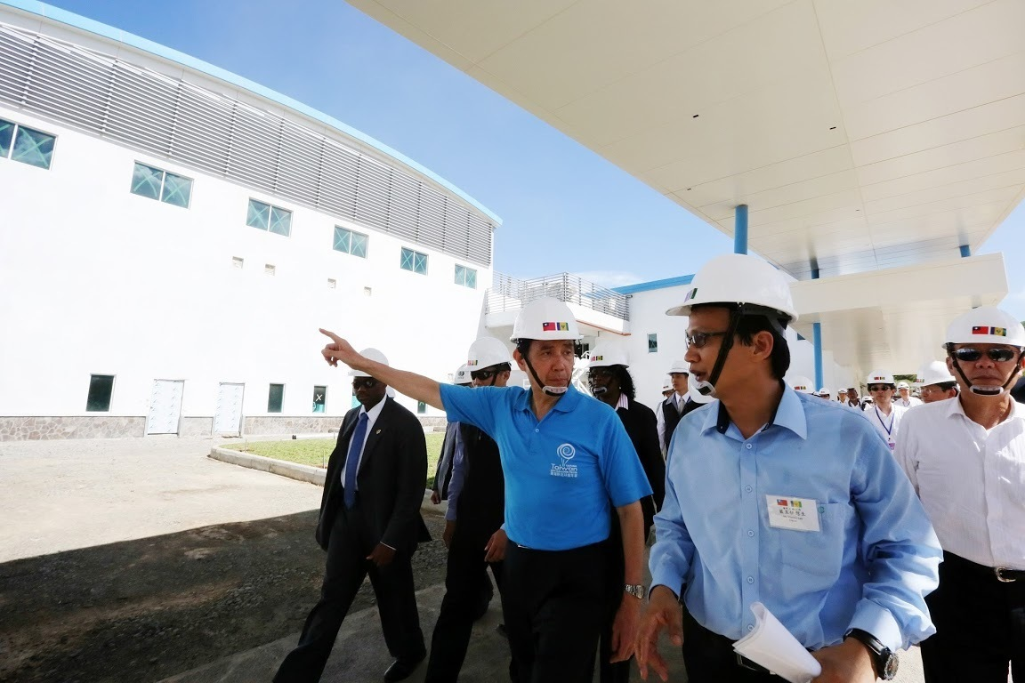 President Ma of Taiwan visits AIA during construction.